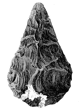 First handaxe published in the history of Archaeology, by John Frere. Found at Hoxne